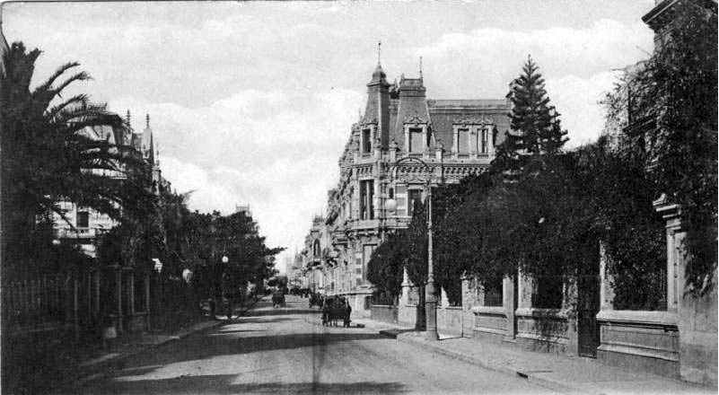 Alvear avenue of Buenos Aires, view from Callao avenue. On the centre of the image, the Eduardo Casey's residence.